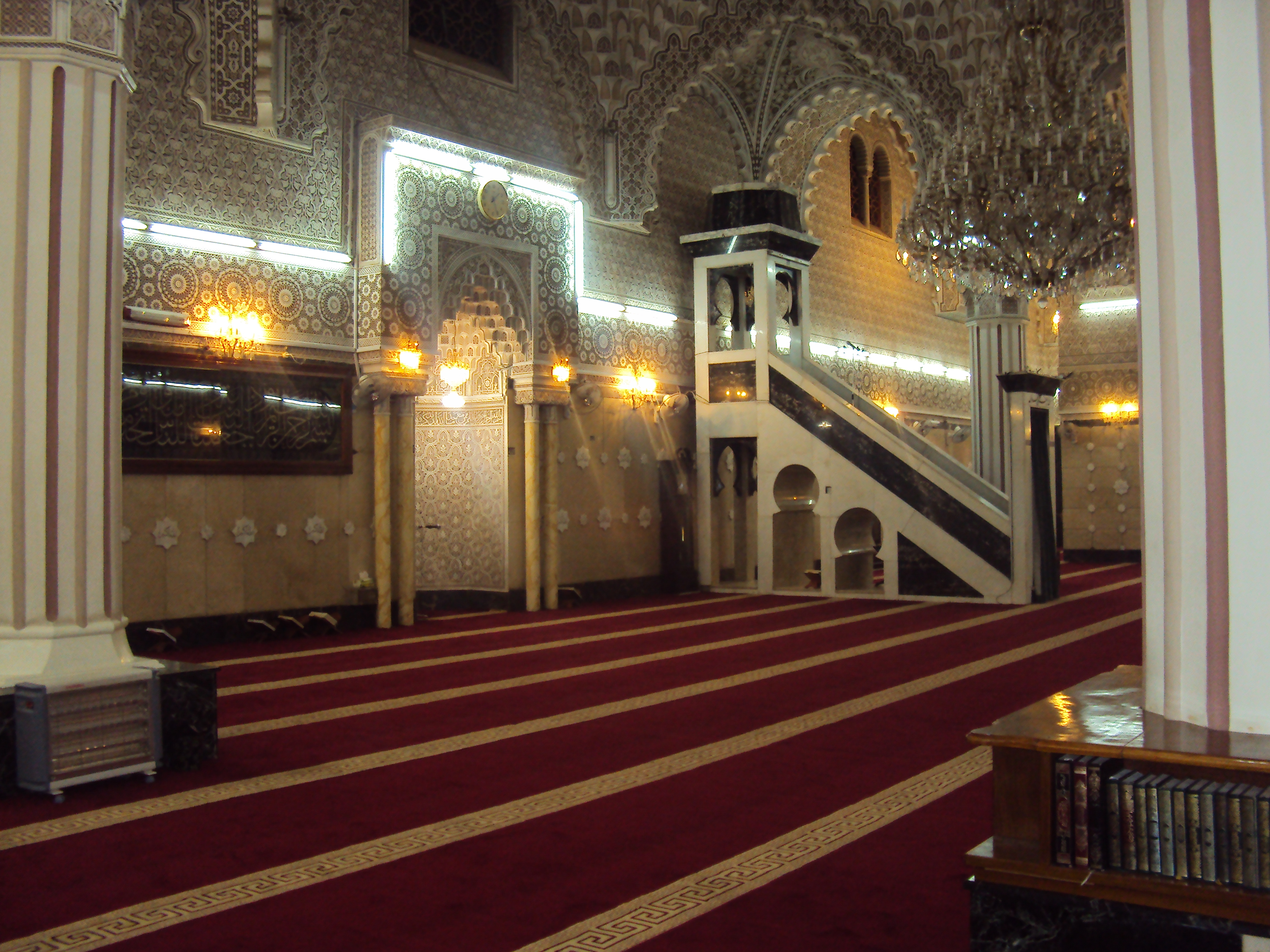 A view of the main hall of the Abu Hanifa Mosque in Adhamiyah